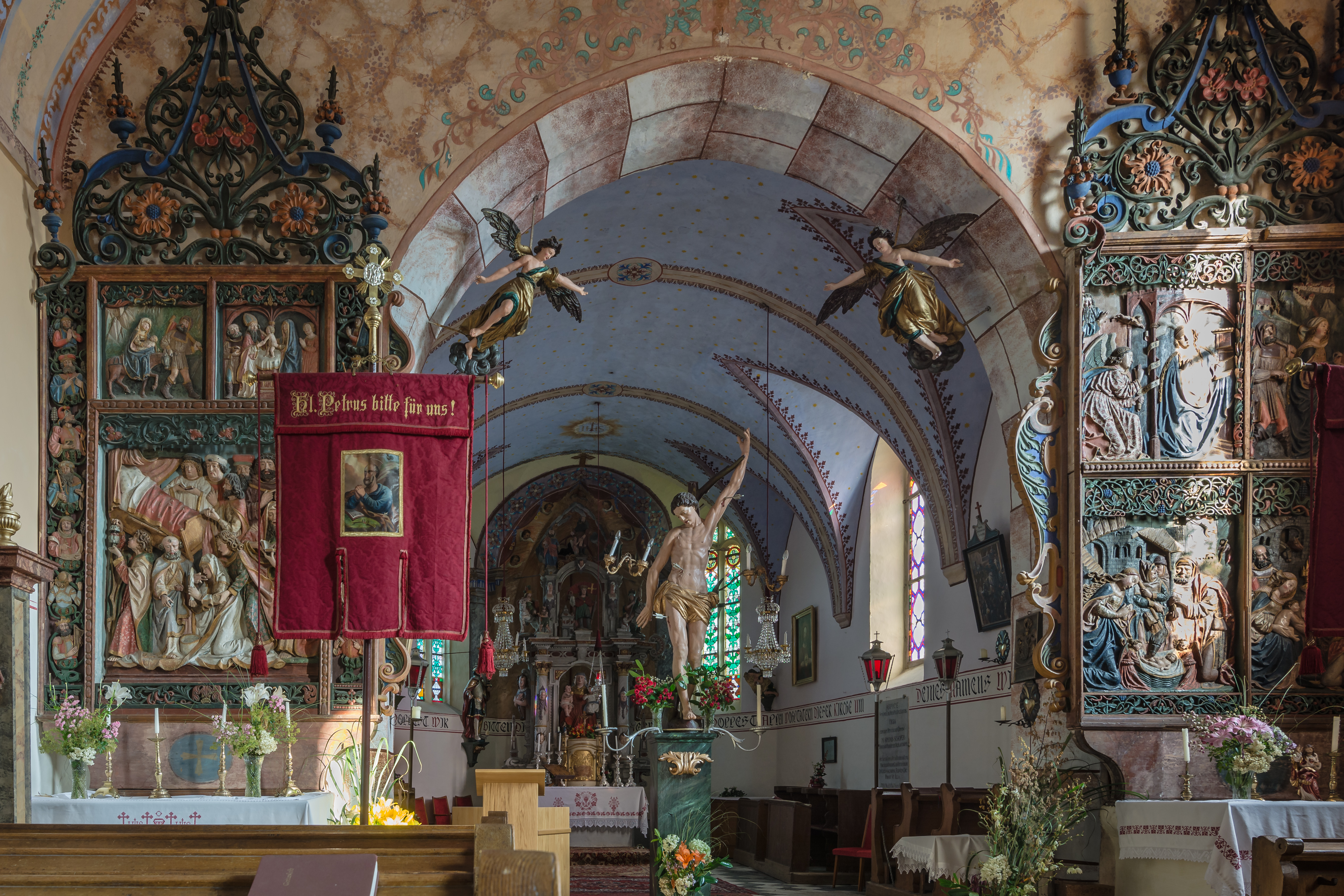 The eldest part of the subsidiary church of Saint Sebastian in Söding-St. Johann is the presbytery which was erected in 1508. The wall painting is from the end of the 19th century. The wood carved altarpieces on the side altars are late gothic (1510-1520). The statue of Saint Sebastian is from the late 17th century.